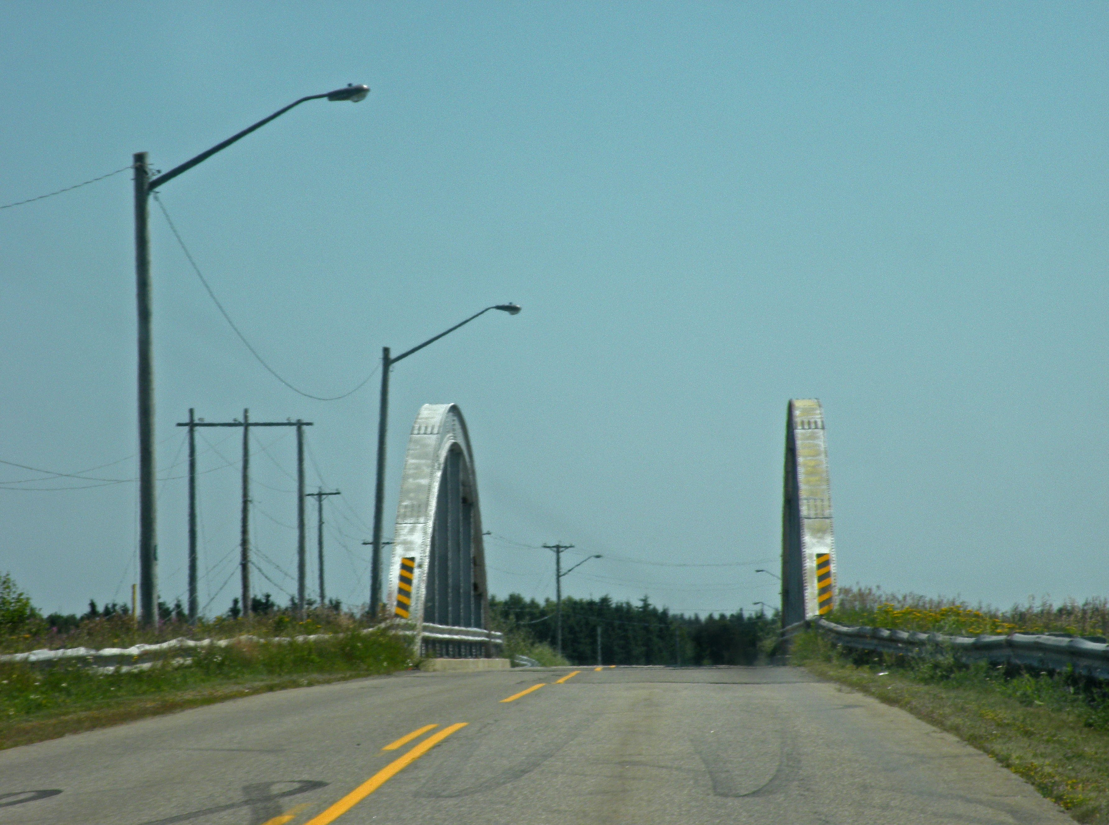 The road 145 bridge in Pokesudie, New Brunswick, Canada.